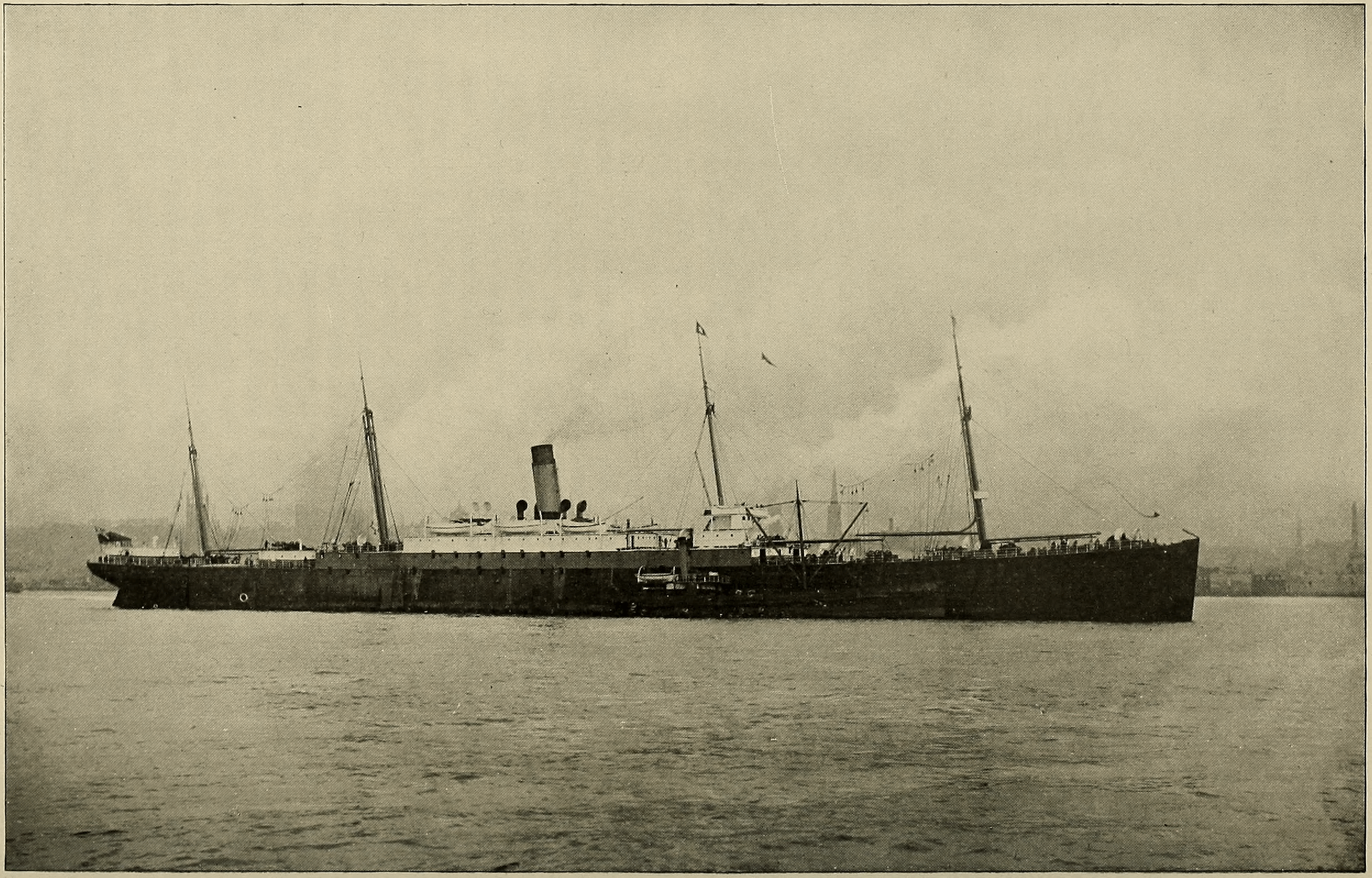 Cassier's Magazine of August 1897 had an article on page 351-366, written by F. P. Purvis and titled Hydraulic Principles affecting a floating Ship. It was accompanied by a number of illustrations, including this photo of the Georgic, on page 352.